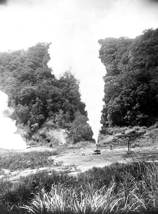 At the exploration of the energy sources of the Kawah Kamodjang volcano, as result of the third drilling in 1926, a water vapor column is raising over the boring.